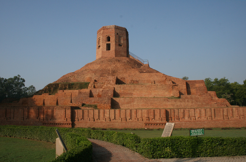 CHAUKHANDI STUPA This lofty brick structure is a terraced Buddhist Stupa known as Chaukhandi. Because of its four armed plan. It was constructed during Gupta period (Circa 4th to 5th Century A.D.) and marks the probable spot where lord Buddha met his Five Erstwhile companions after enlightenment this stupa also find mention the accounts of Huentsiang, the celebrated Chinese travellor of 7th century A.D. The archaeological excavations conducted in 1835 and 1904-05 brought to light. This 93 feet high brick stupa laid in mud mortar having three diminishing square terraces, each about 12 feet high and 12 feet broad. Each terrace is supported by an outer and inner wall with a number of cross walls to strengthen. The structure the outer walls of the terraces are ornamented with a series of niches separated by pilasters. The image of Buddha in Dharamchakra Pravartan Mudra and Leogryphs with swordsmen found at this site are excellent examples of the classic Gupta art. The octagonal brick tower crowing the Stupa is a Mughal structure erected in 1588 A.D. by Govardhan, son of Raj Todarmal, to commemorate the visit of Humayun the Great Mughal, Emporer to this place, as recorded in an Arabic inscription on a stone slab above its doorway on the north side. Dr. Manish Arora Assistant Professor Department of Applied Arts Faculty of Visual Arts Banaras Hindu University Varanasi 221005 Uttar Pradesh, INDIA